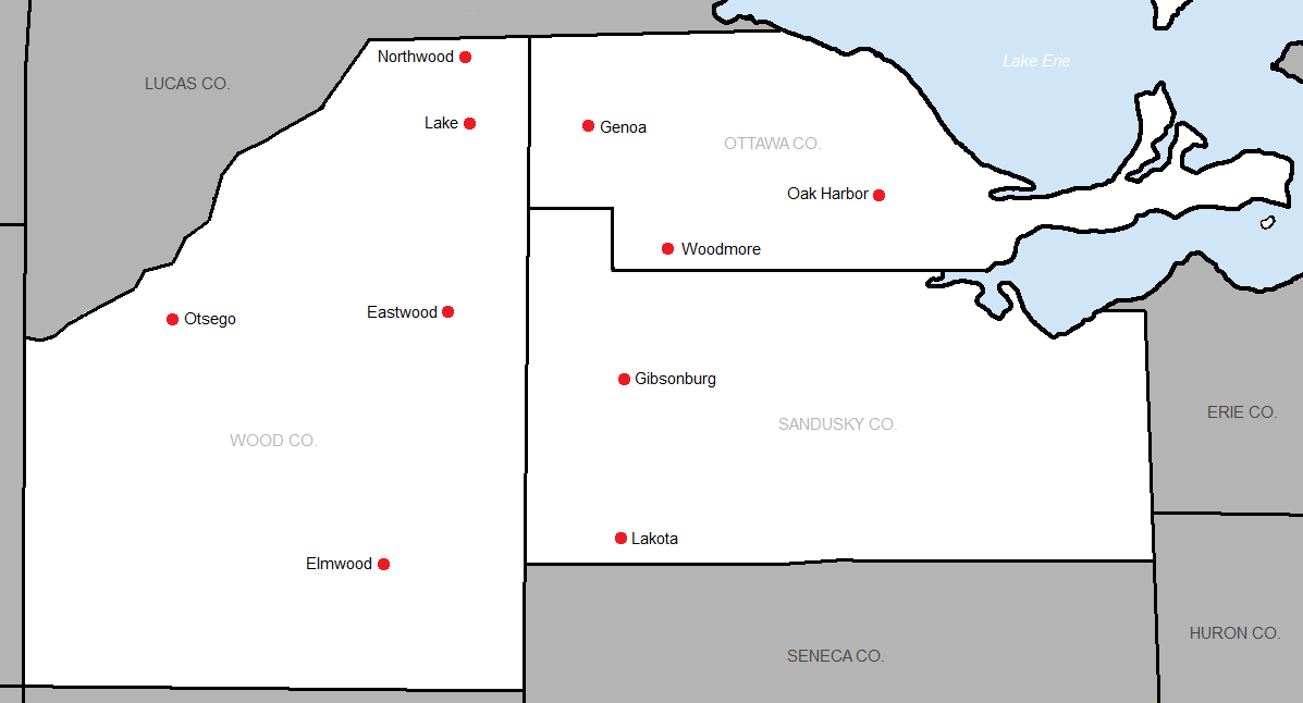 Original county lines drawn by the US Census. Modified by myself to show school locations and to label county names.